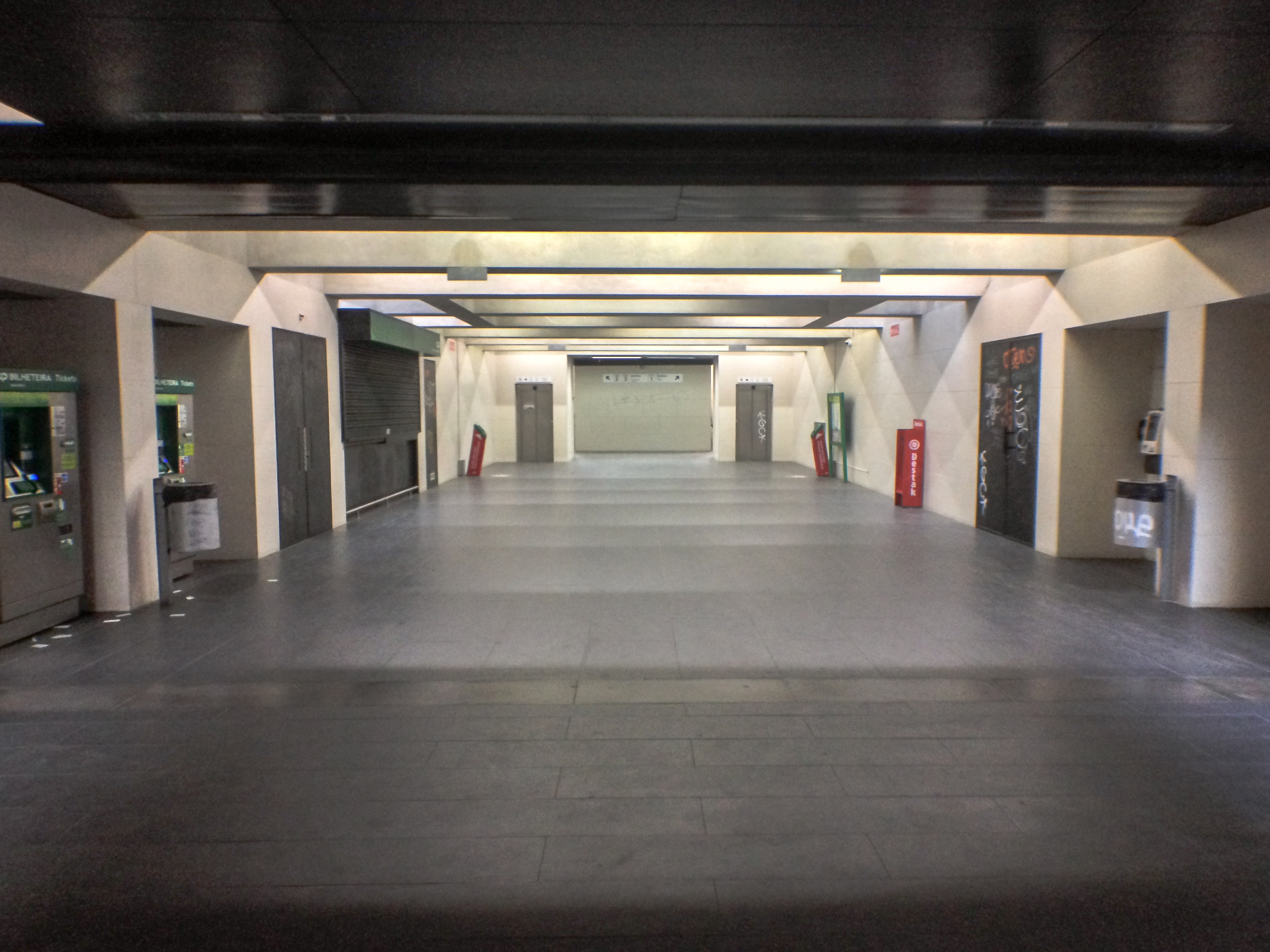 São Pedro do Estoril train station; São Pedro do Estoril, Portugal